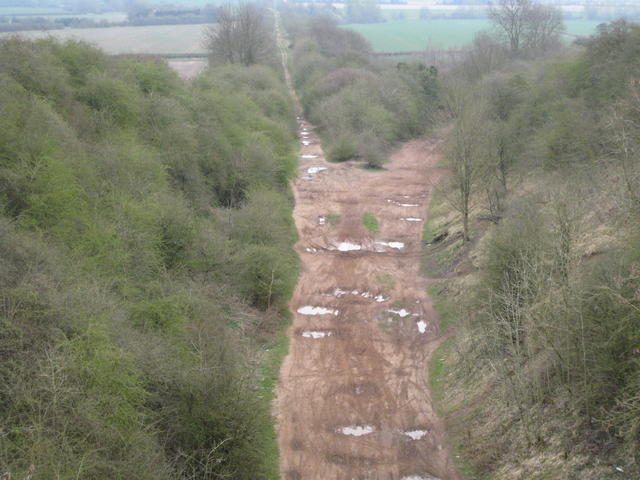 Marton Junction. Looking from the bridge carrying the Ridgeway Lane across the deep cutting at this point. The main line from Leamington Spa carried straight on towards Rugby whilst the line to the right headed for Weedon. The site of what was once a double track railway junction is currently a muddy patch churned up by dirt track motor cyclists.